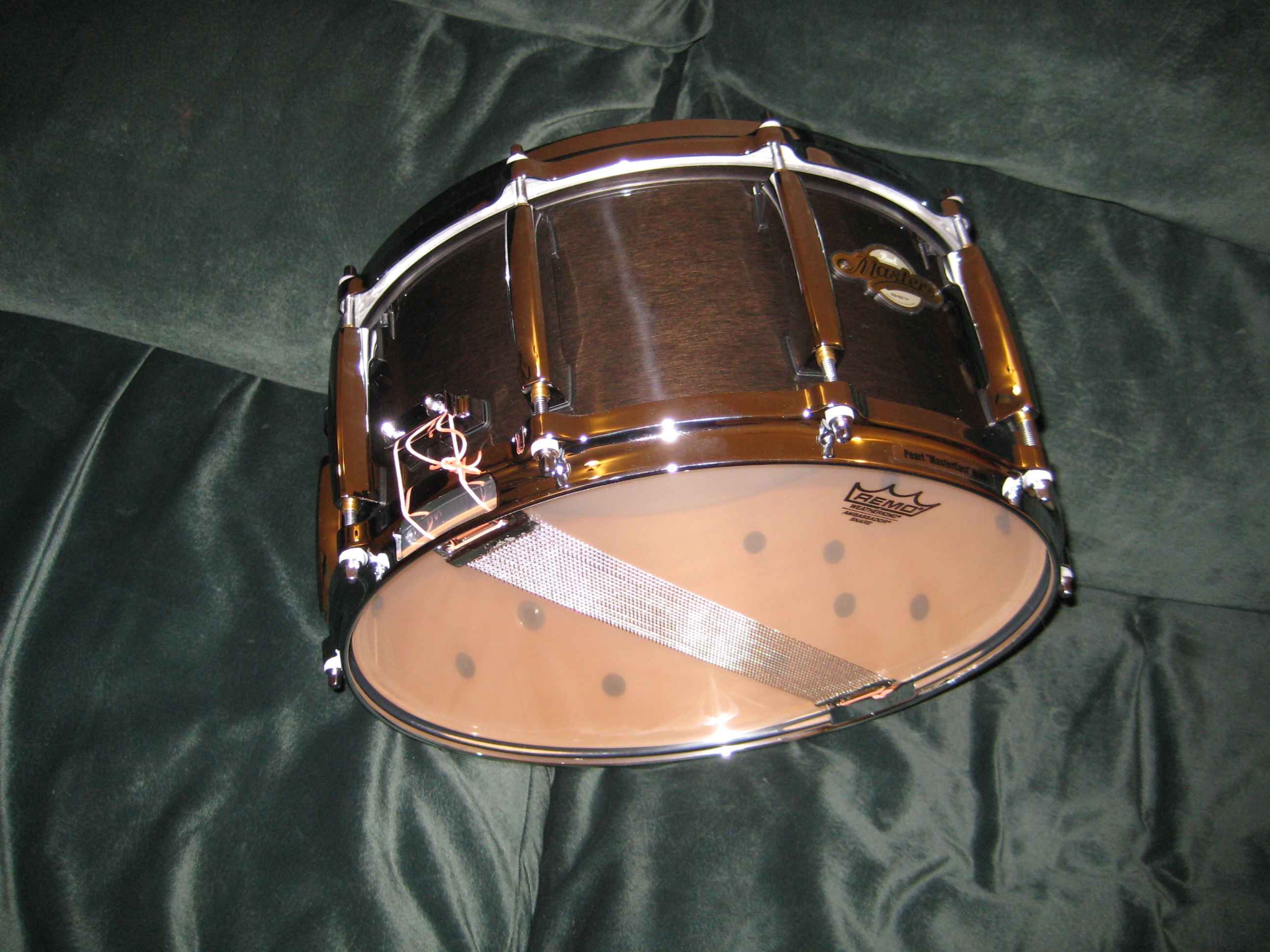 Pearl MCX maple snare drum, 6.5" x 14" in transparent black